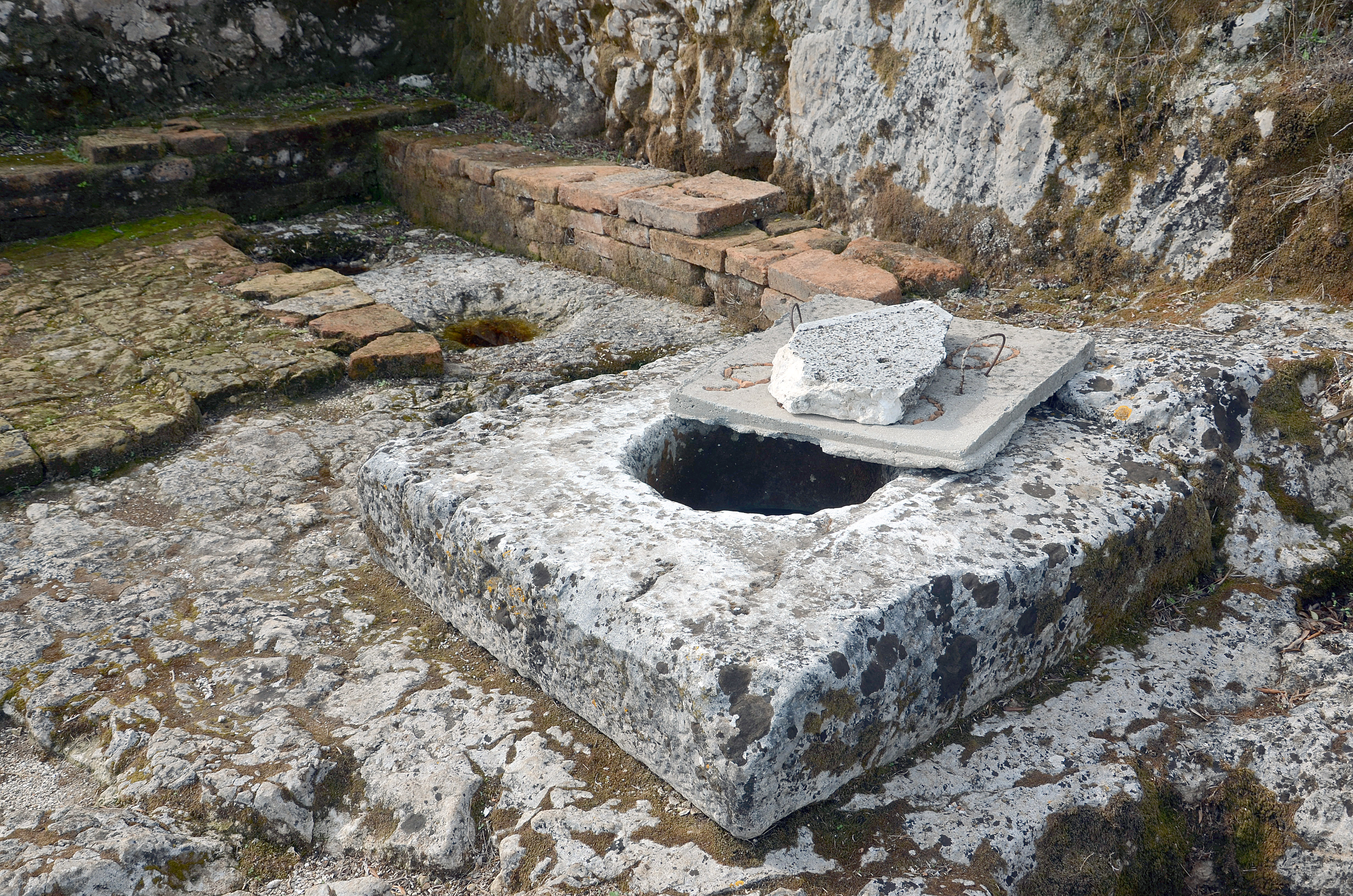 Dwelling House from 3rd century BC excavated in Oricum, paved with brick, a cistern for rain water and rounded silos for ceramic vessels